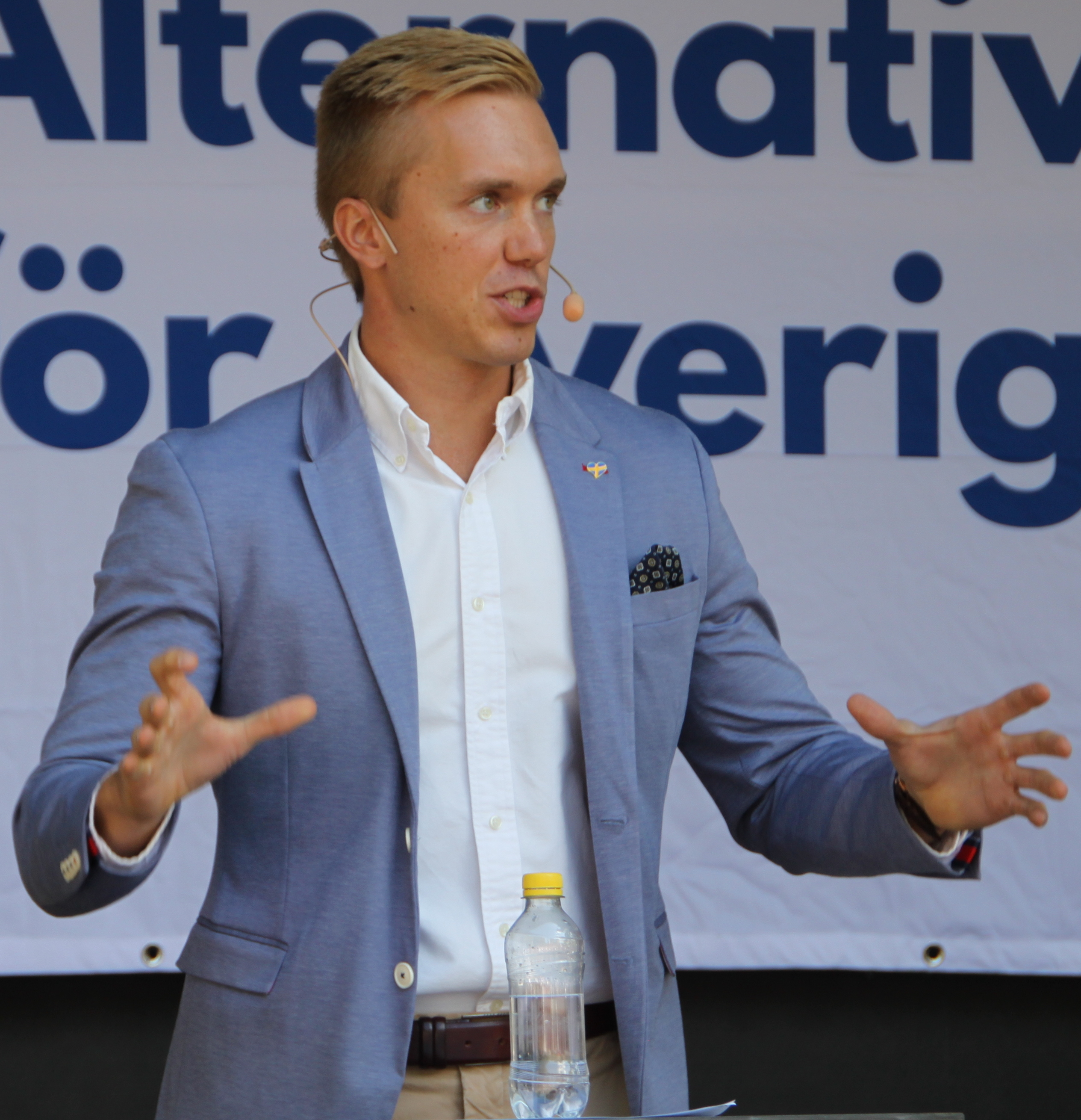 William Hahne speaks at Alternative for Sweden's meeting on Långholmen in Stockholm on 11 August 2018.